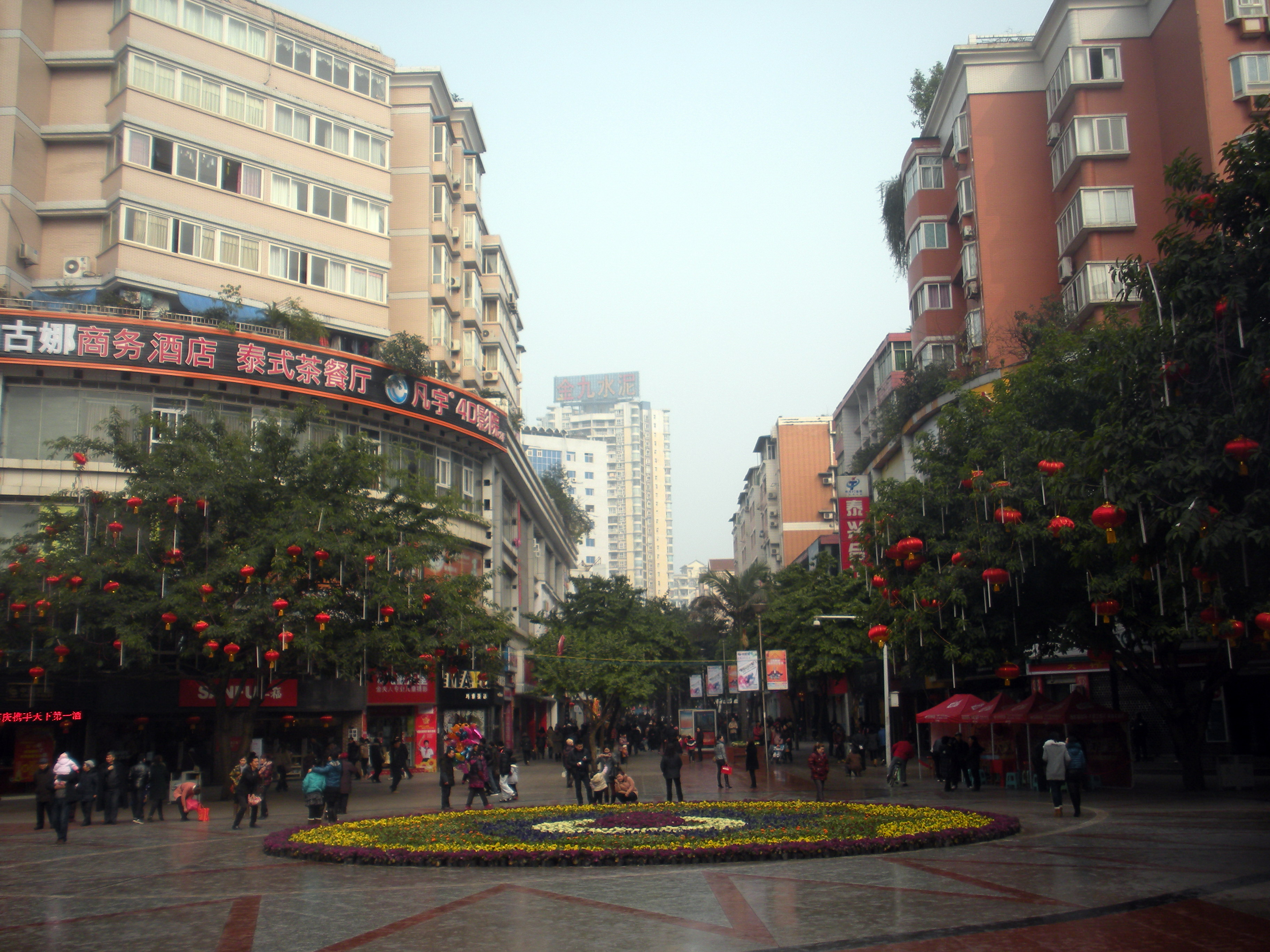 The pedestrian mall in Hechuan District.The photo has been taken by Prof.Chen Hualin.